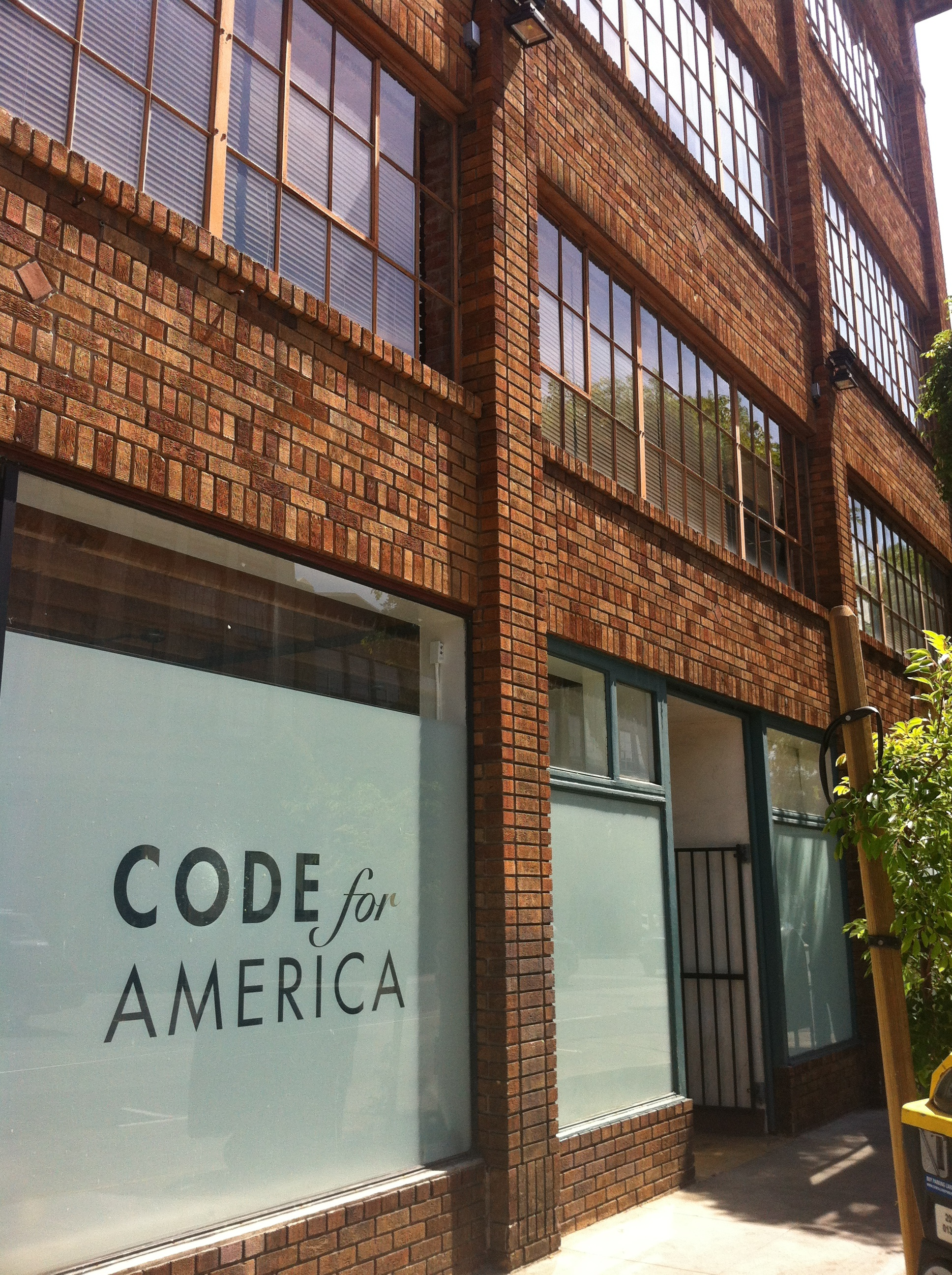 Code for America building